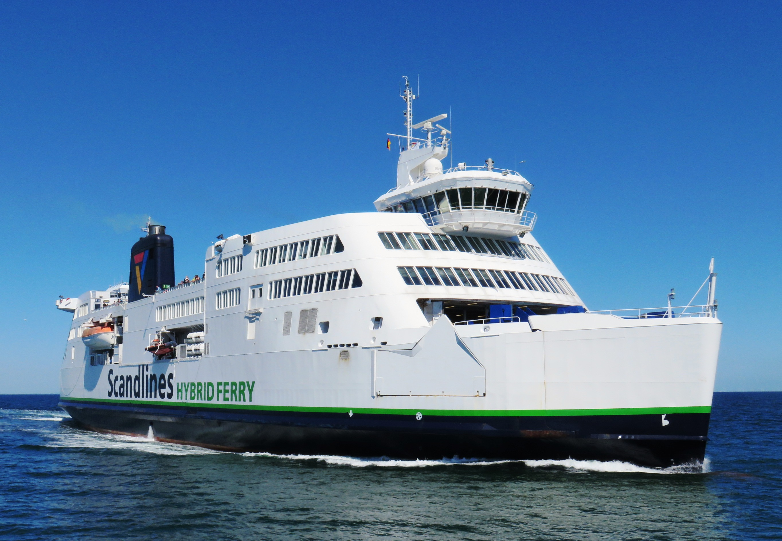 Double-ended ferry Prins Richard entering the Puttgarden ferry terminal